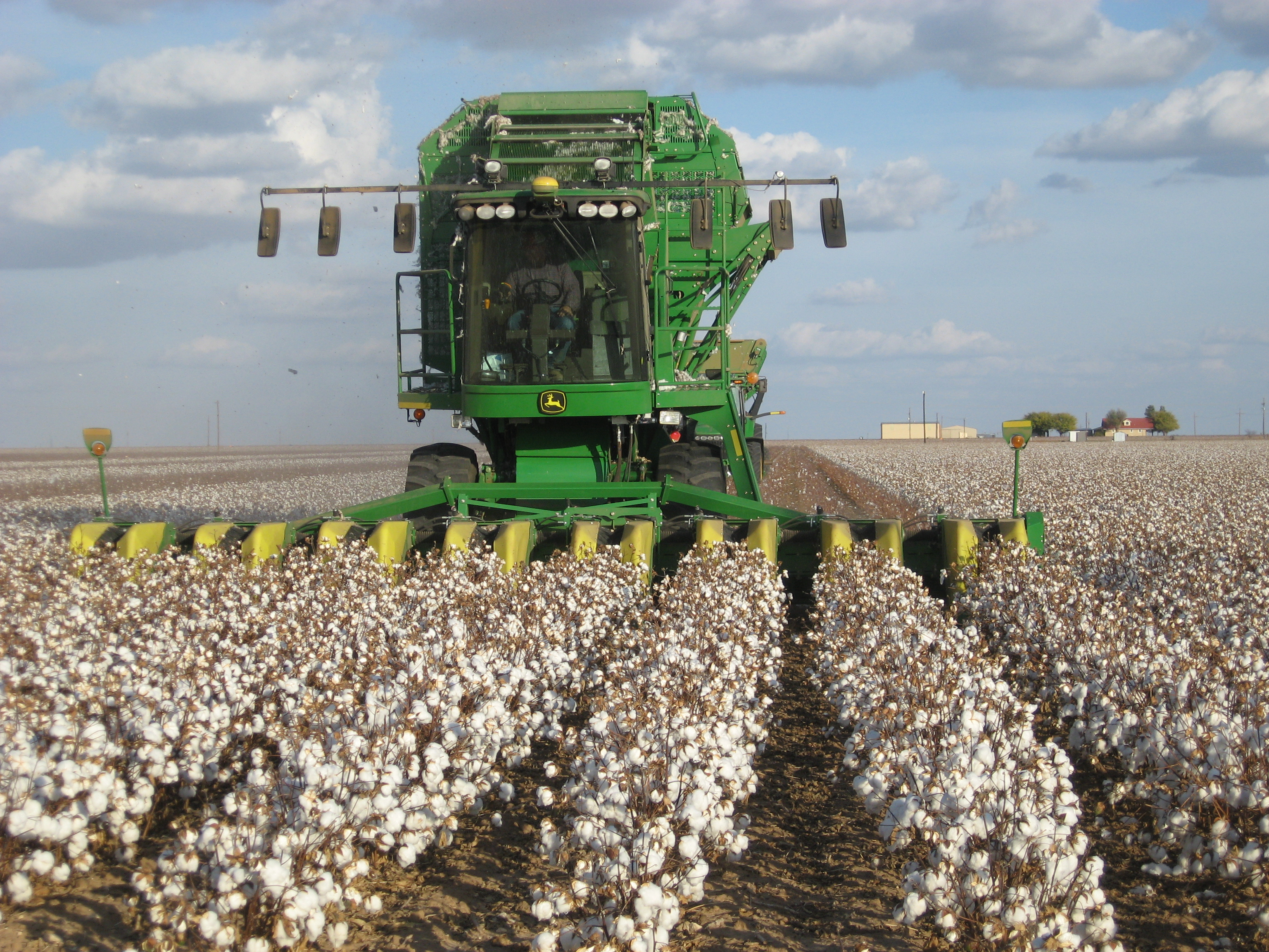 A John Deere cotton harvester at work in a cotton field (somewhere in the USA presumably)